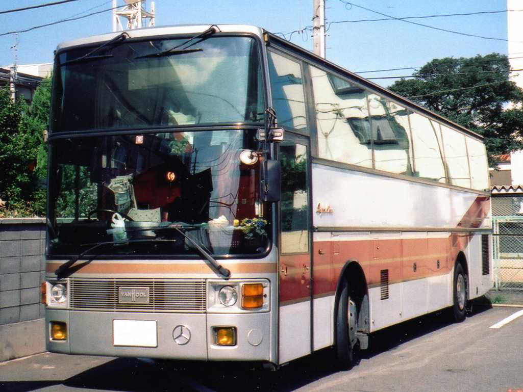 Van Hool T815 Acron, Japan version. Mercedes-Benz chassis or only engine. バンホール アクロン T815 日本仕様車 自家用のためナンバーについては修正 三島市内の駐車場にて撮影 Photo by Cassiopeia_sweet.